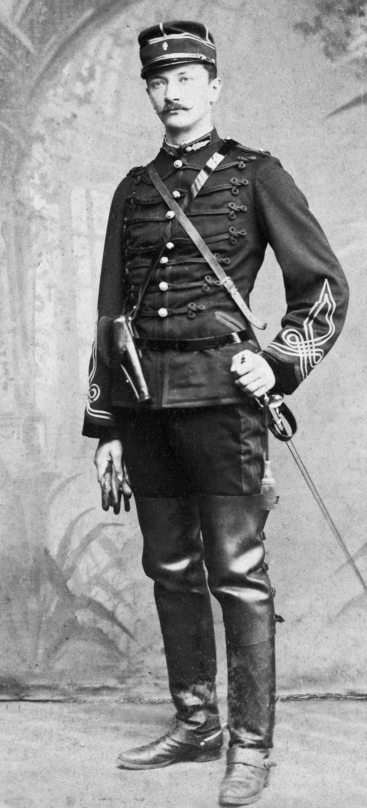 Jean Leclerc de Pulligny Normandie Famille Le Clerc